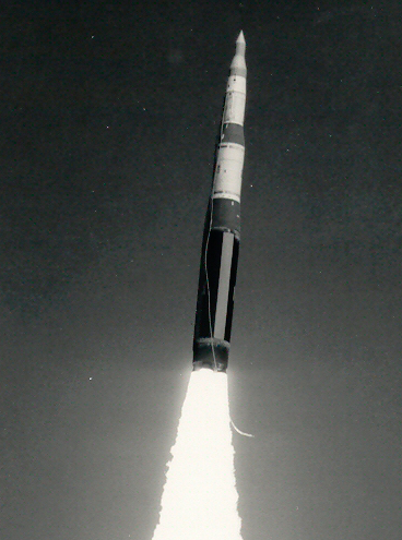 Minuteman II missile test launch